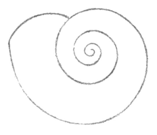 Drawing of an umbilical view of the shell of Choanomphalus amauronius amauronius.